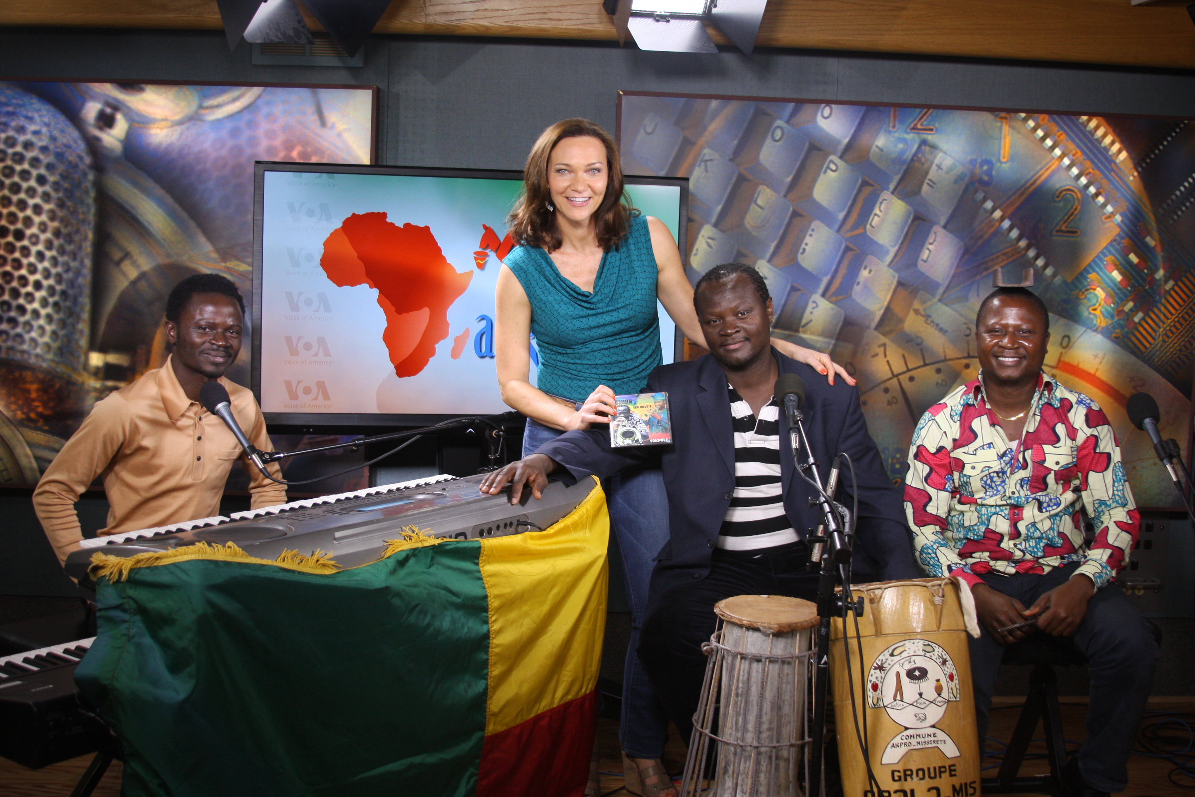 Jomion and the Uklos in Studio 4 for Music Time in Africa with Heather Maxwell. May 24th 2013 at the Voice of America, Washington D.C.